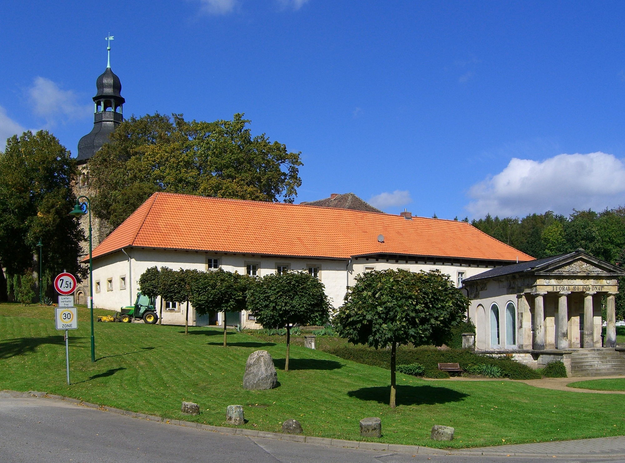 Abbey church "St. Marien", brewery and orangery building in Marienborn.